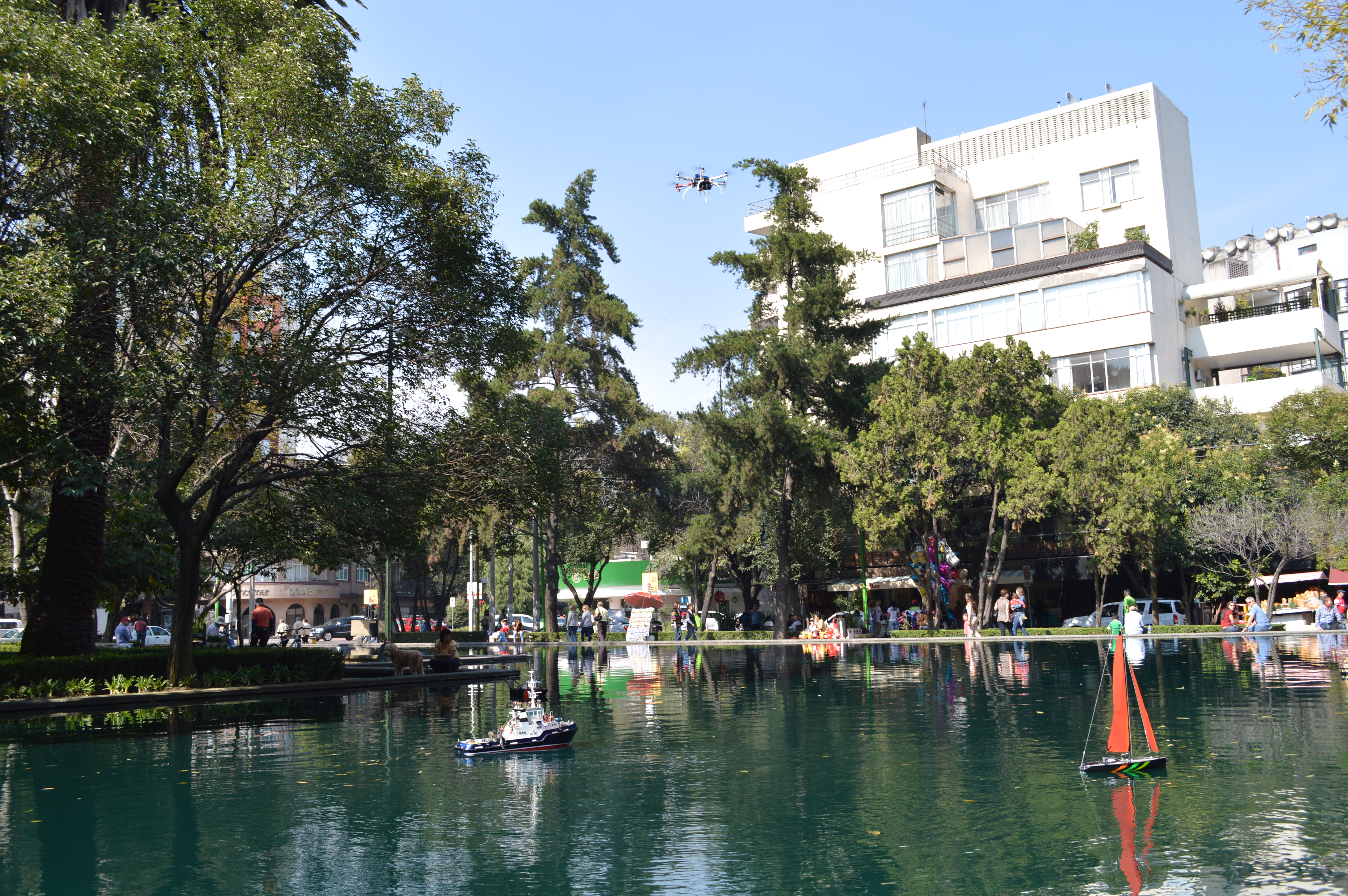 Artificial pond in Lincoln Park in the Polanco neighborhood of Mexico City